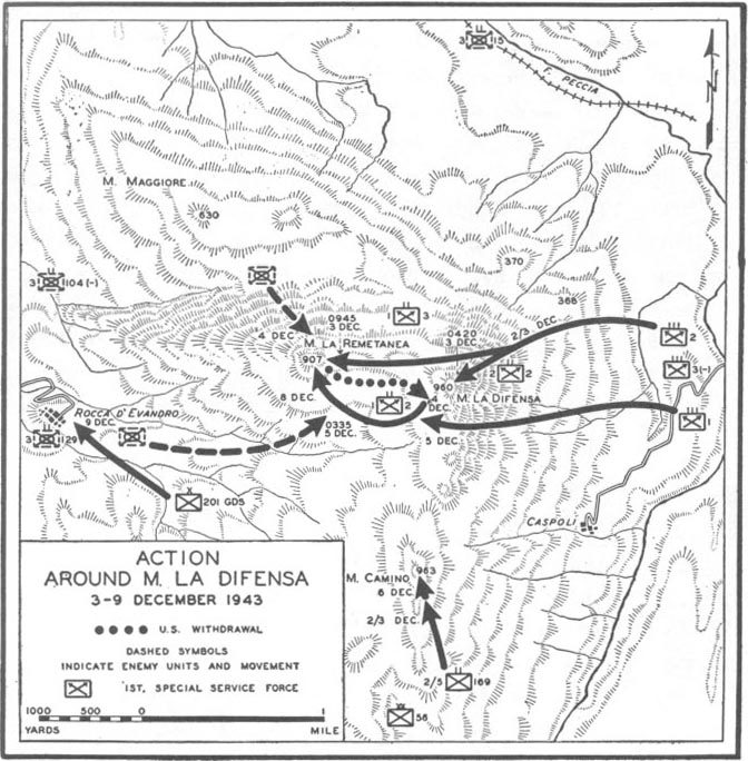 Action around Monte La Difensa 3-9 December 1943